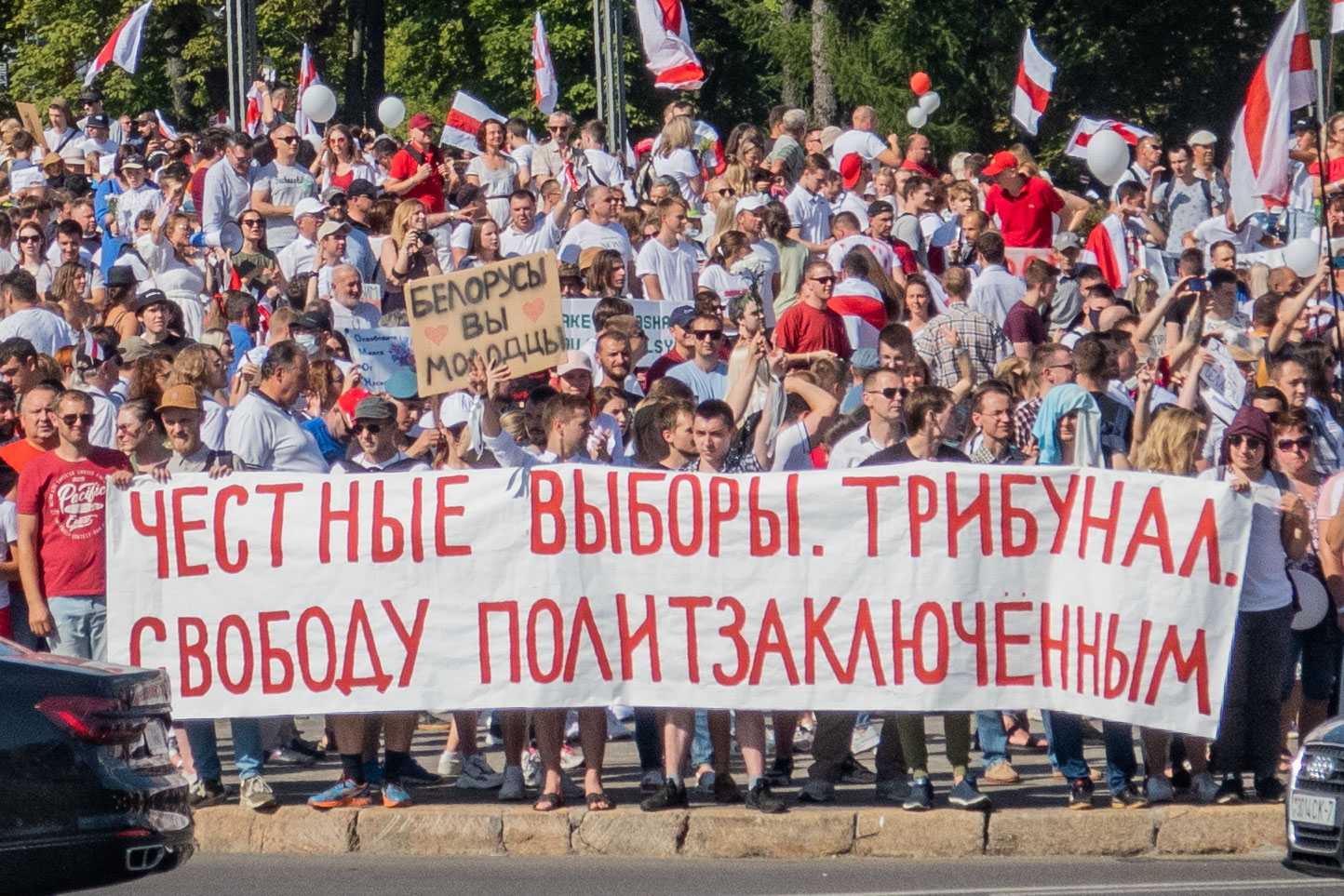 Protest rally against Lukashenko, 16 August. Minsk, Belarus